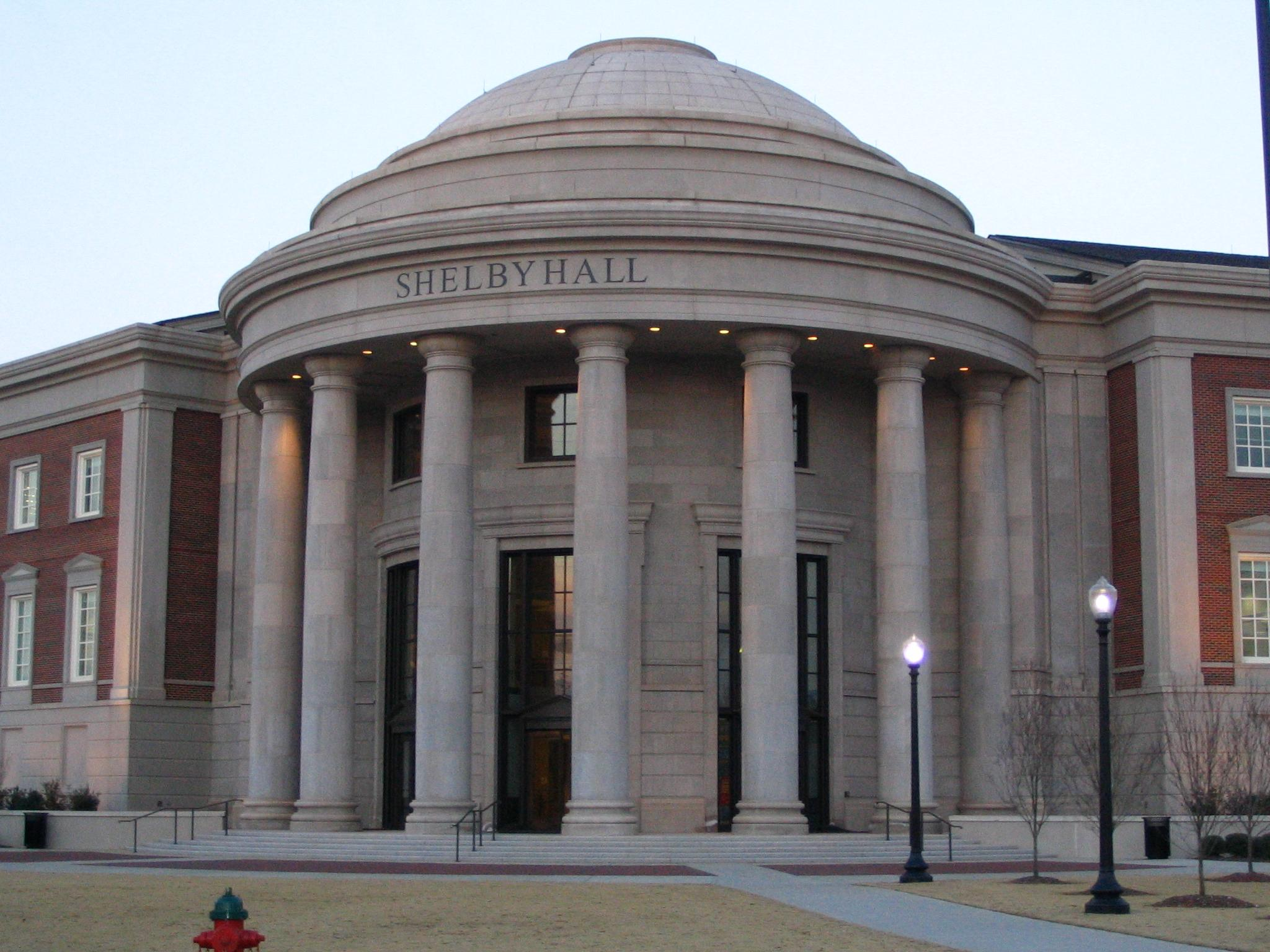 Shelby Hall on the University of Alabama campus in Tuscaloosa, AL.